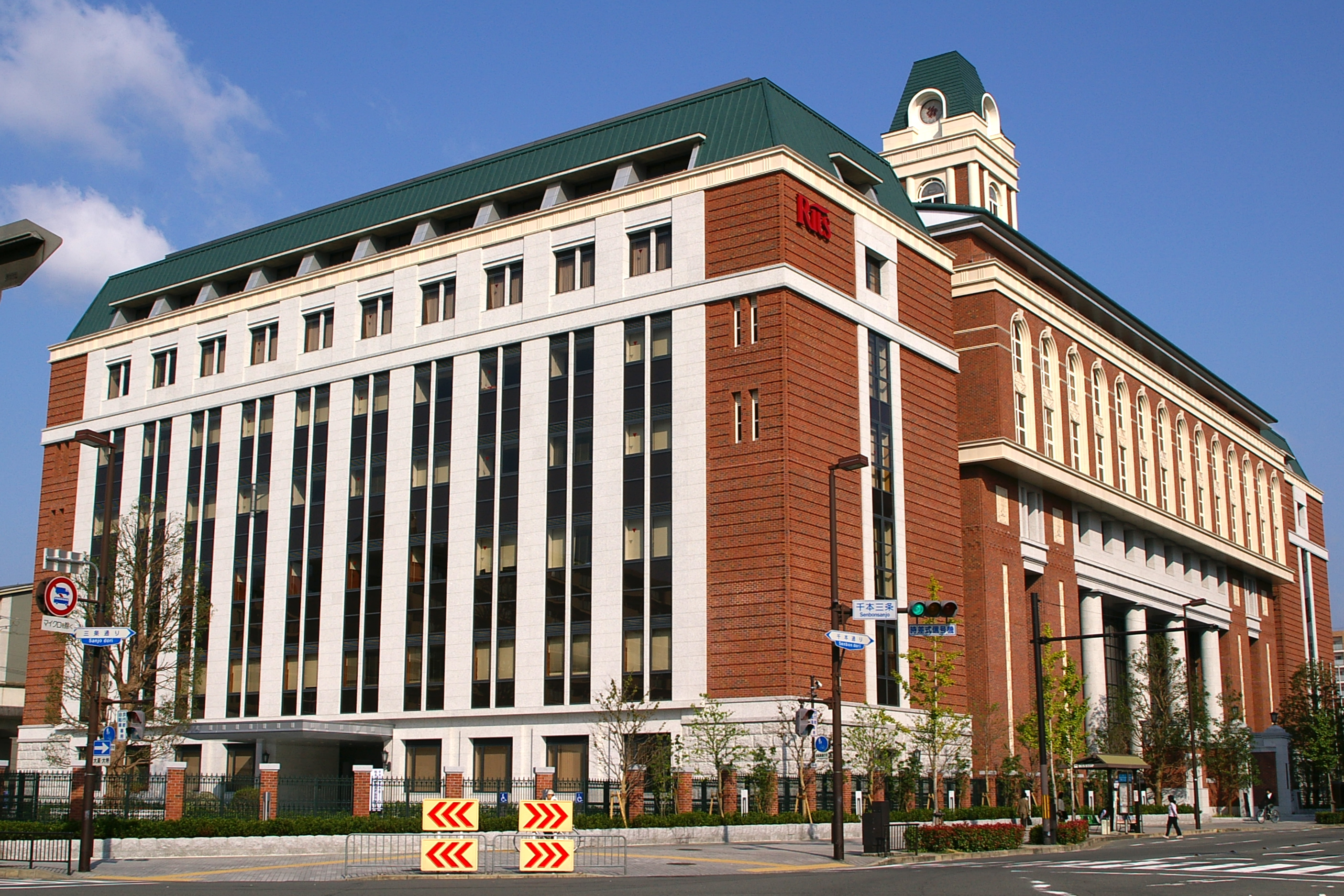 Photograph of the "Nakagawa Kaikan" building in Suzaku Campus, Ritsumeikan University, Nakagyo-ku, Kyoto, Kyoto Prefecture, Japan.